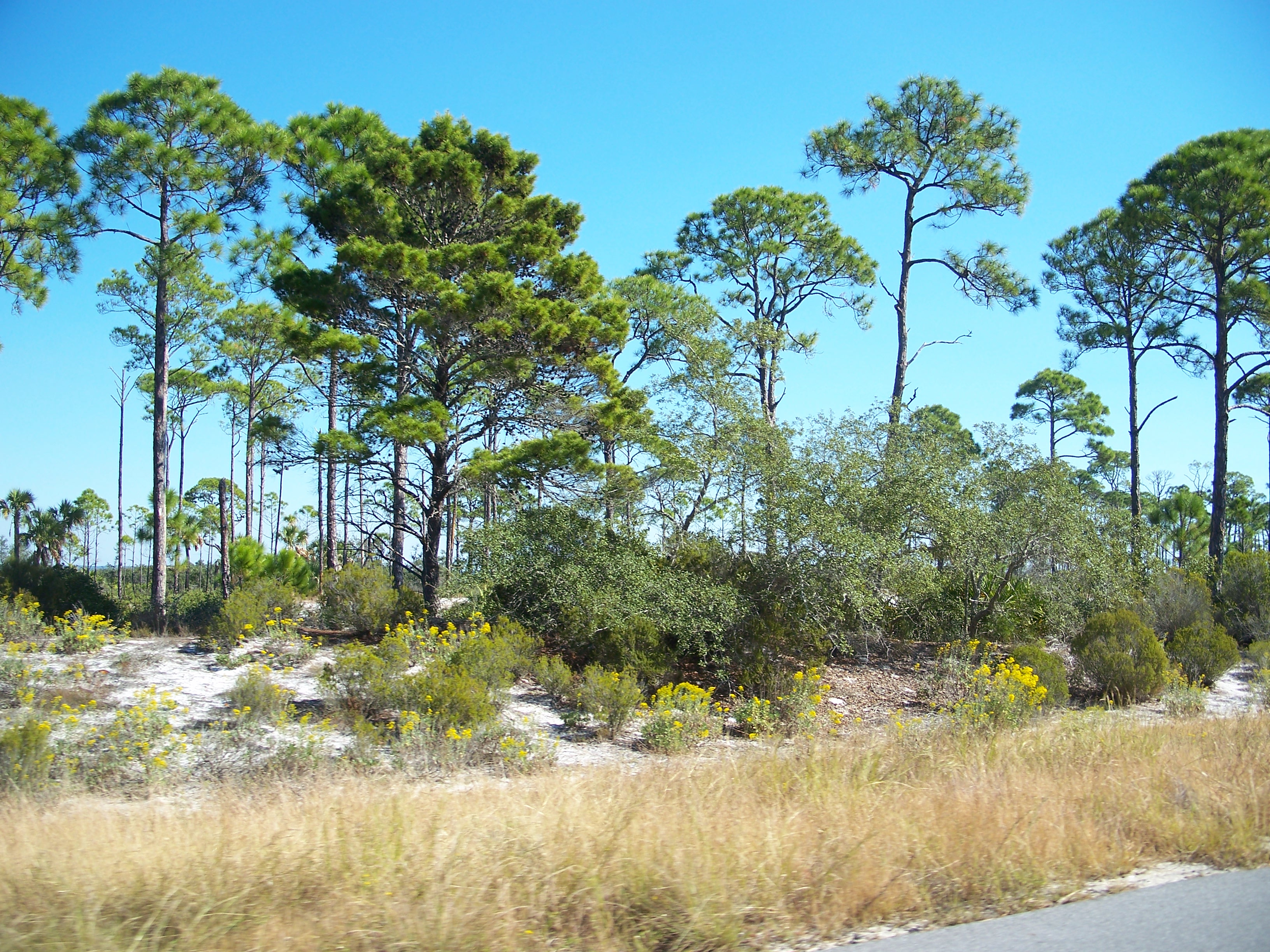 Sand Pine Pinus clausa and Longleaf Pine Pinus palustris grove in Florida scrub habitat, in St. Joseph Peninsula State Park, Gulf County, Florida.